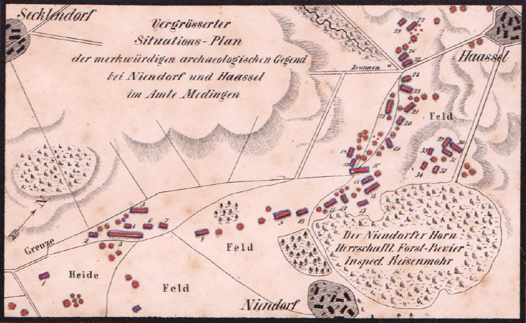 Prehistoric tombs near Niendorf I and Haaßel